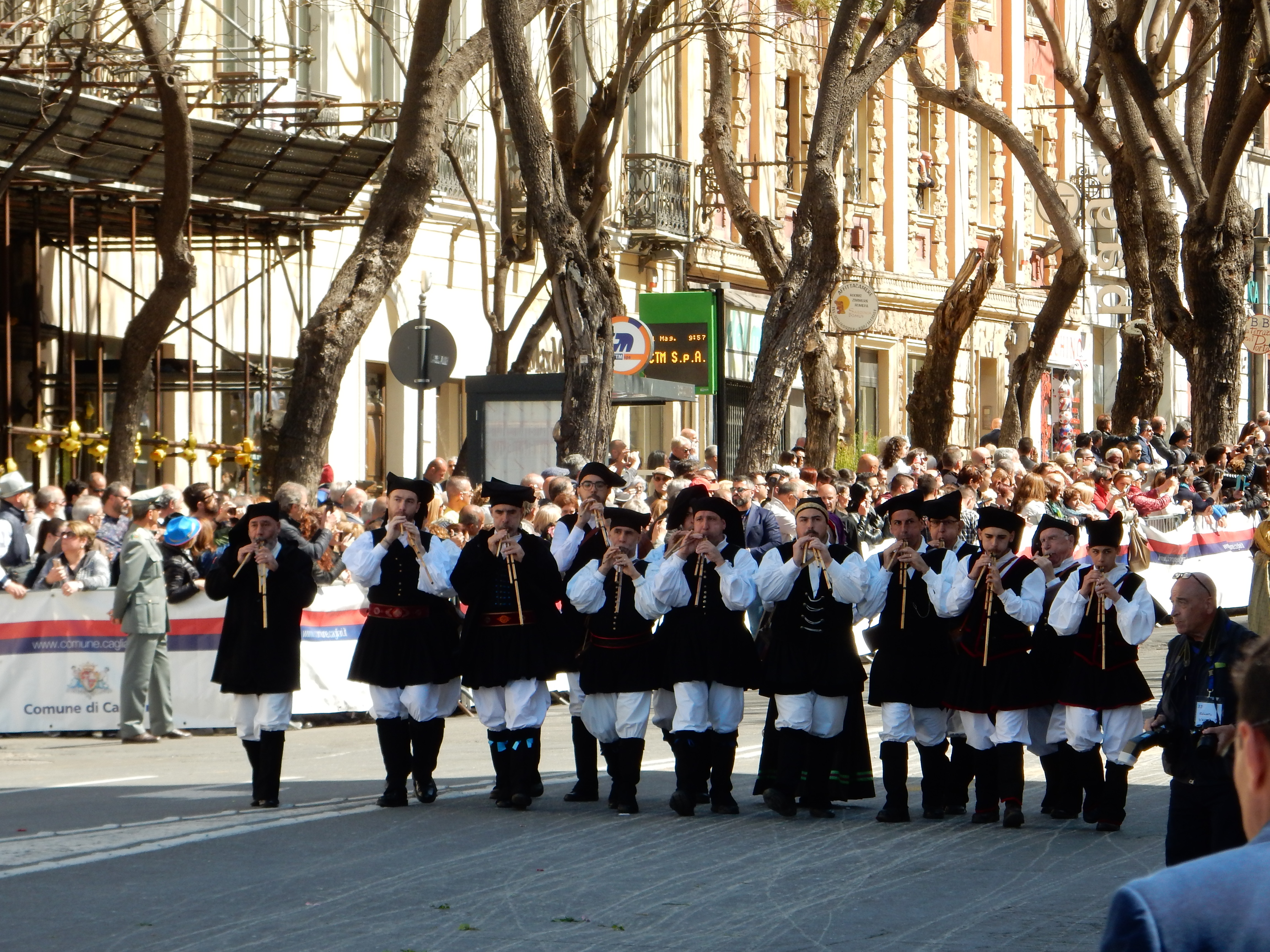 Launeddas player at Sant’Efisio prozession at Cagliari